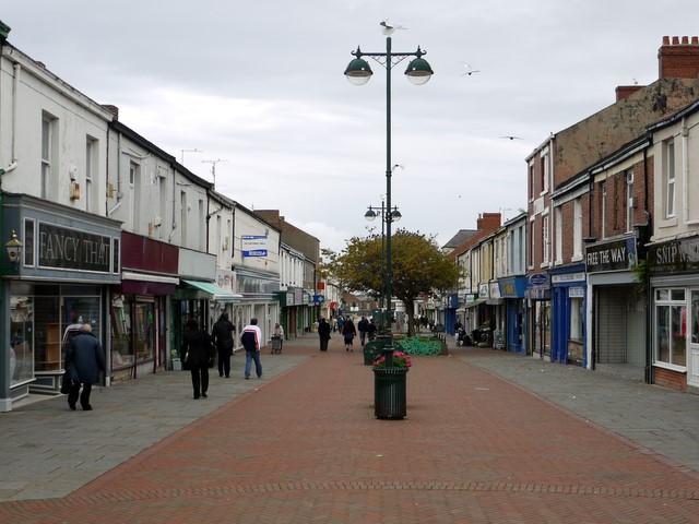 Church Street, Seaham A pedestrianised shopping street. As an extensive part of the town nearby has become a large modern shopping mall and supermarket complex the traditional outlets here look like they are struggling to survive. The fake seagulls on the top of the lamp-posts and brightly coloured bicycle motifs make interesting features.